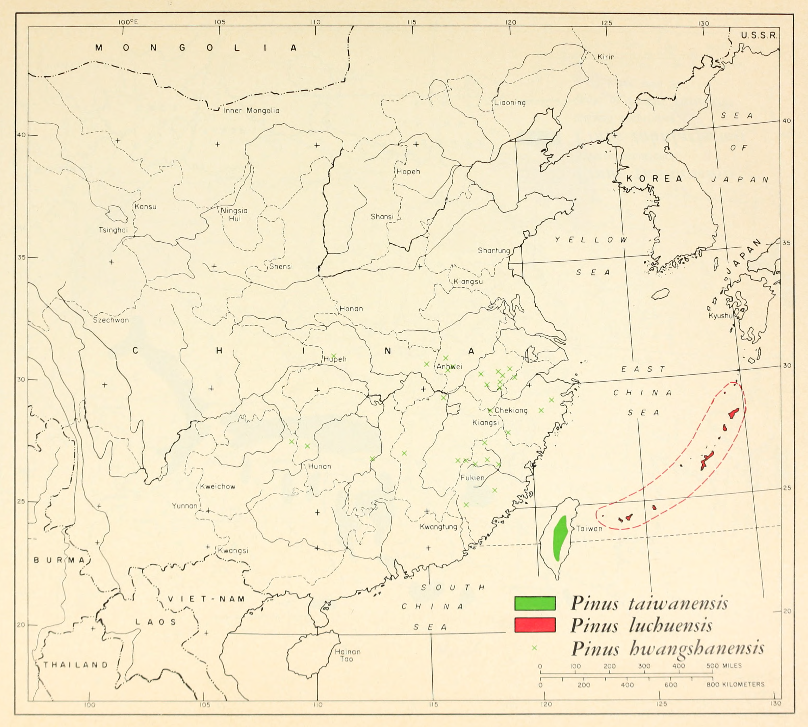 Map 36 Pinus taiwanensis, Pinus luchuensis & Pinus hwangshanensis distribution